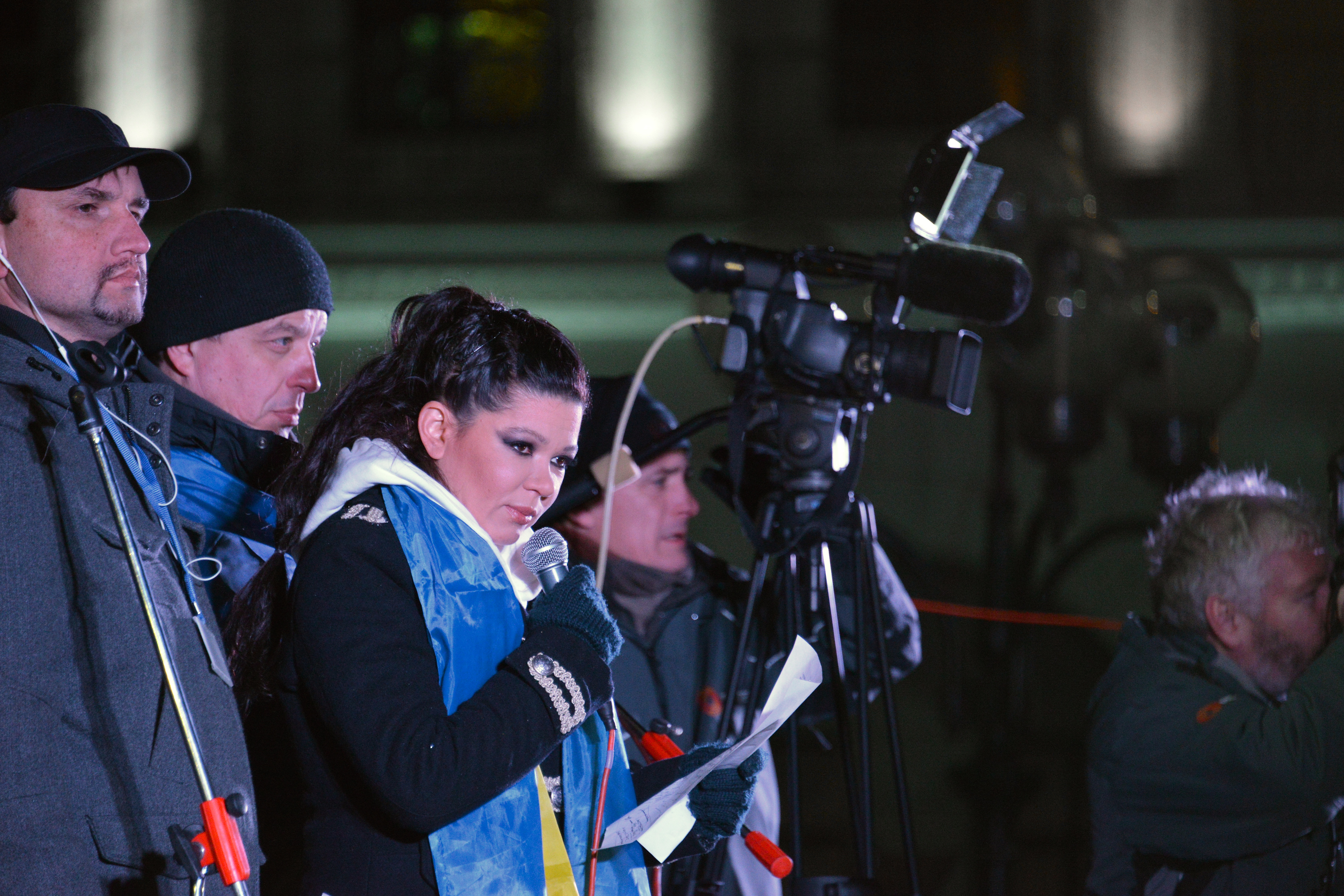 Original description from Flickr: The last day of Euromaidan on Friday